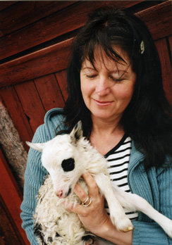 Nina Östman